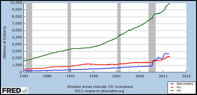 These are the aggregatges for MB, M1 and M2 as taken from the St. Louis Federal Reserve's aggregate graph generator.